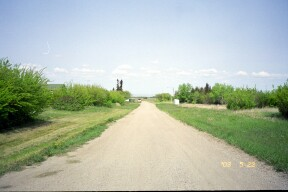 The road into the hamlet of Kandahar, taken by the user in May of 2003. Kandahar, Saskatchewan, Canada The road into the hamlet of Kandahar, taken by the user in May of 2003.